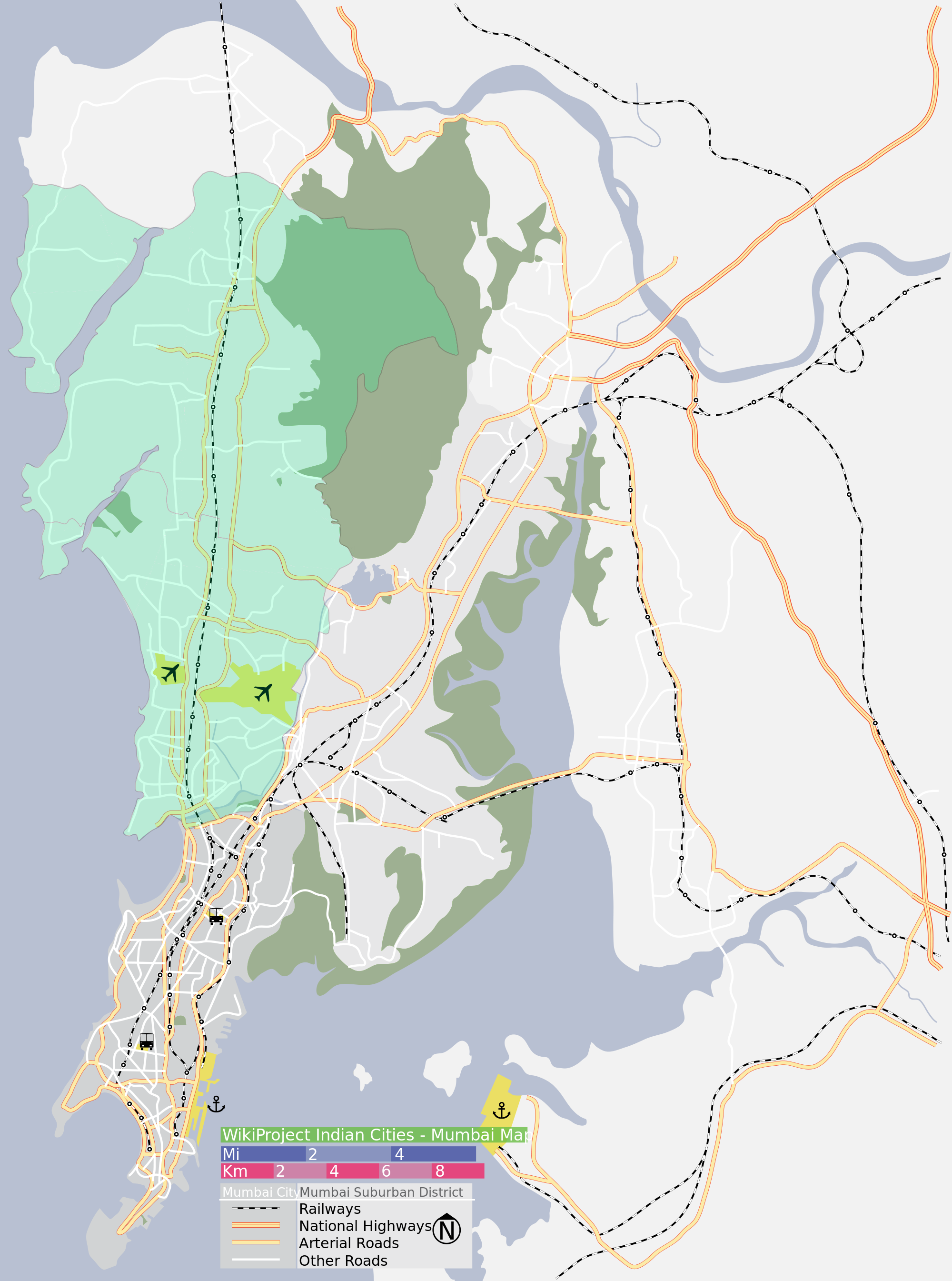 Map of Mumbai shaded to indicate the Western Suburbs subdistrict